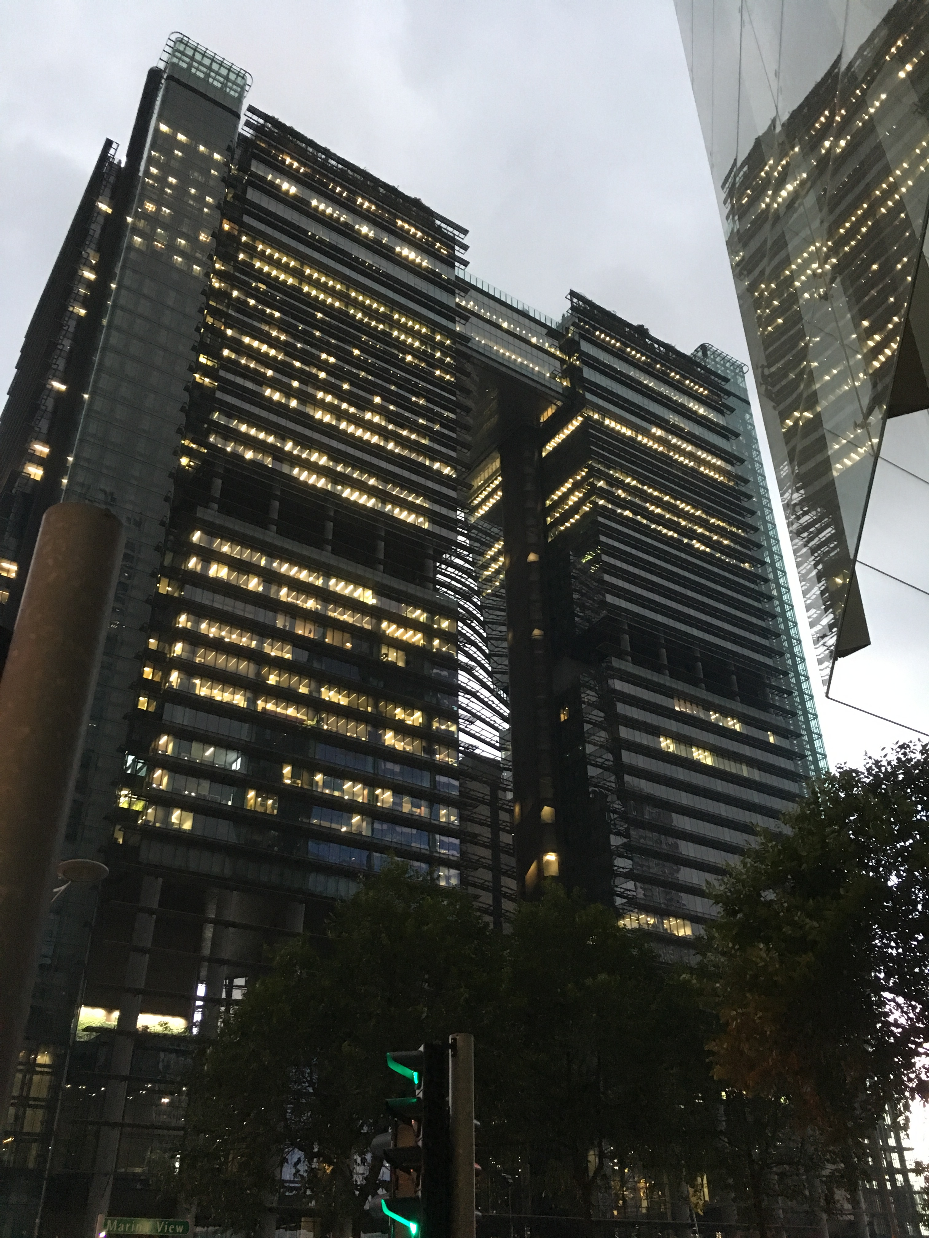 Marina One